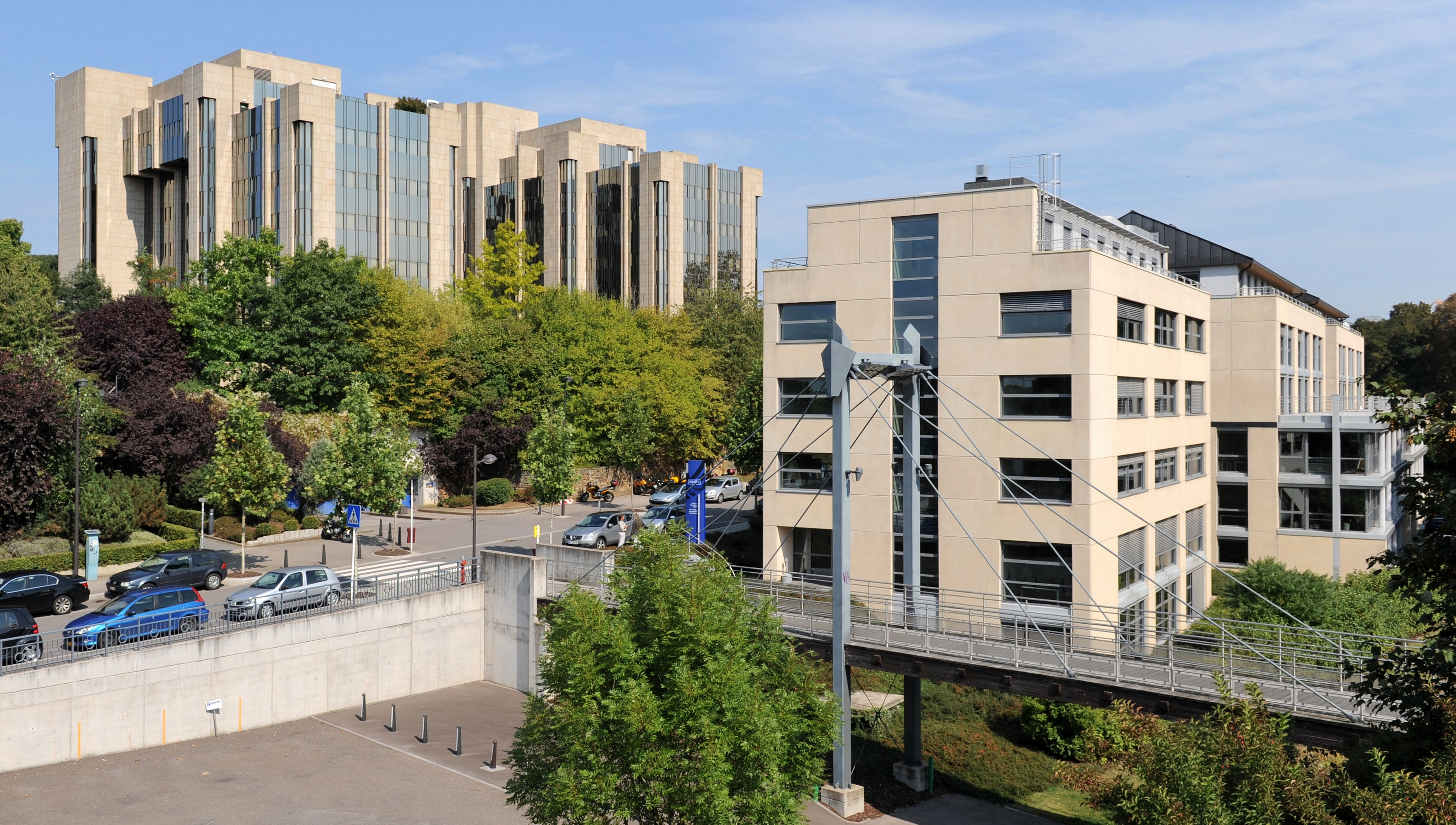 Office buildings in Hollerich, Luxembourg City (Dexia BIL)